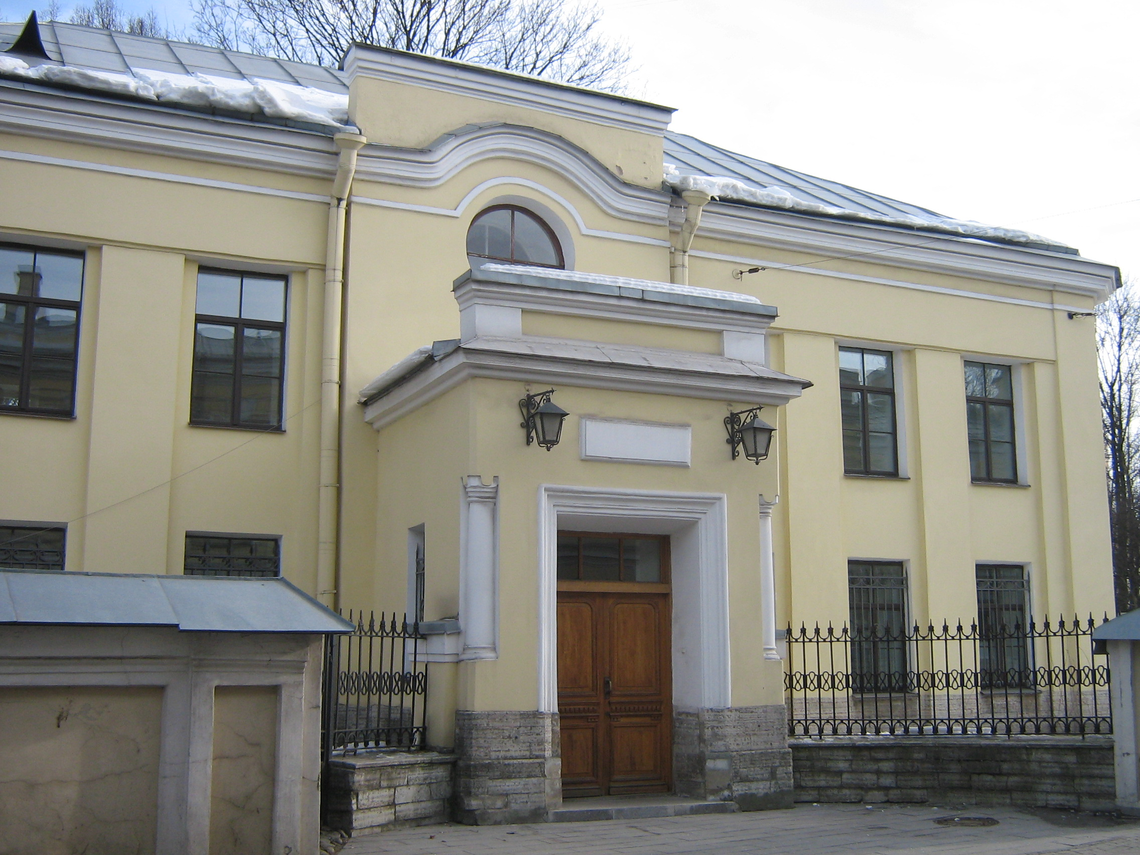 Saint Petersburg (Russia), Alexander Nevsky Lavra, Tikhvin Cemetery